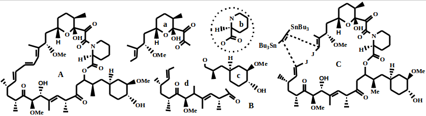 Cluster synthesis of rapamycin